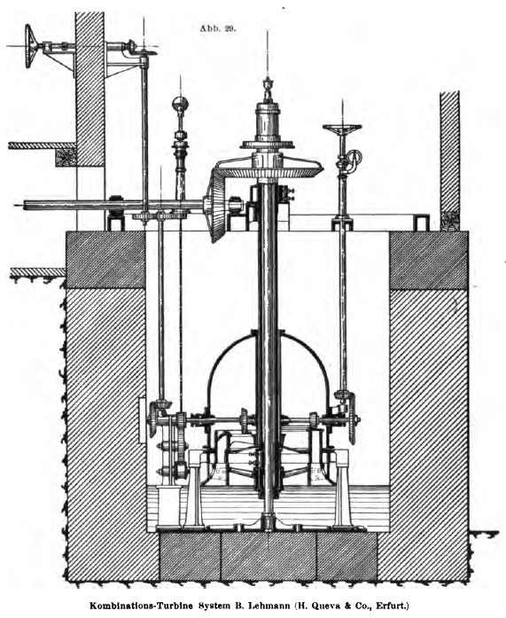 Schematic principle of a comnbination turbine by the german engineer B. Lehmann